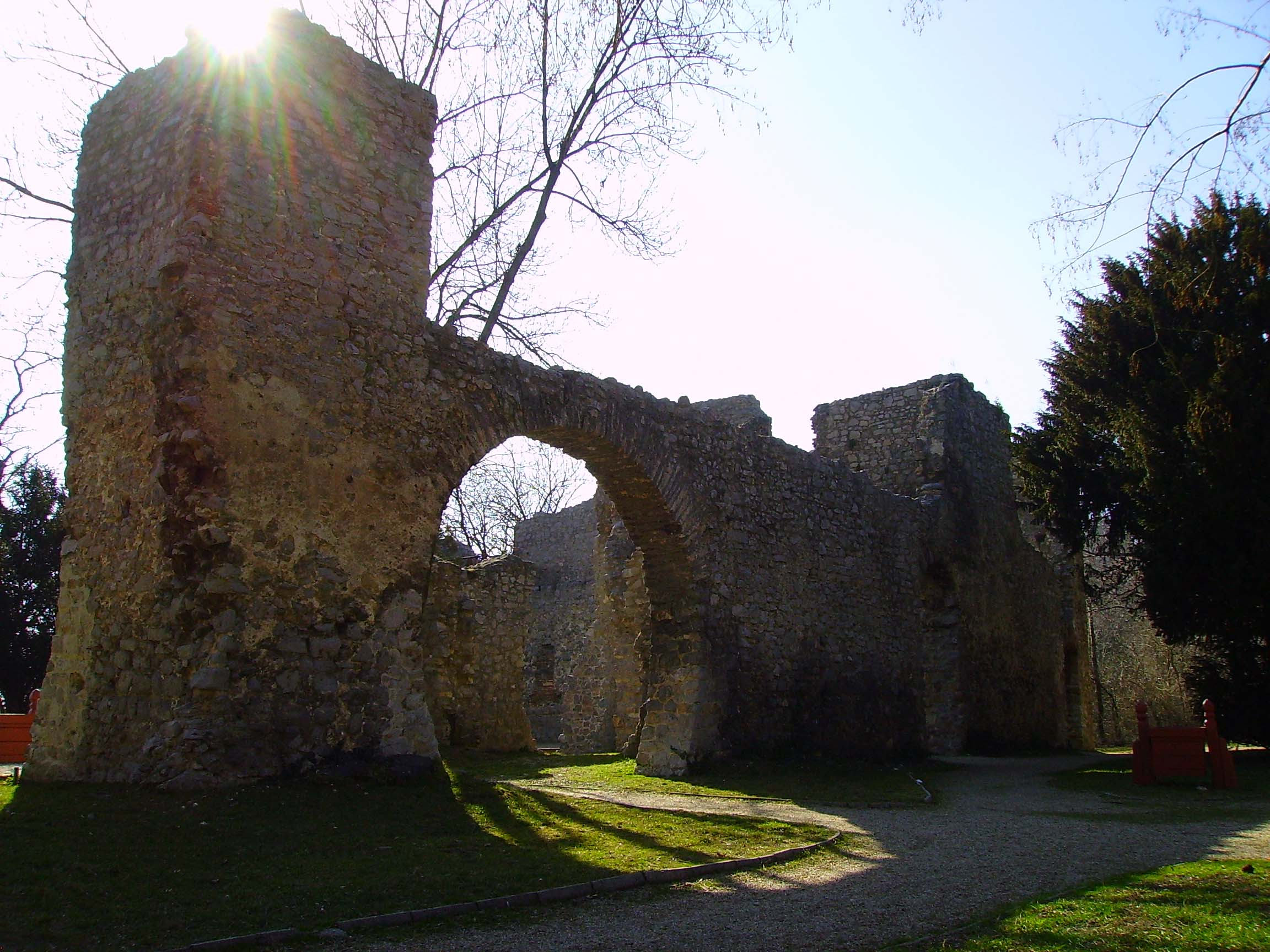 Ruins in Tettye